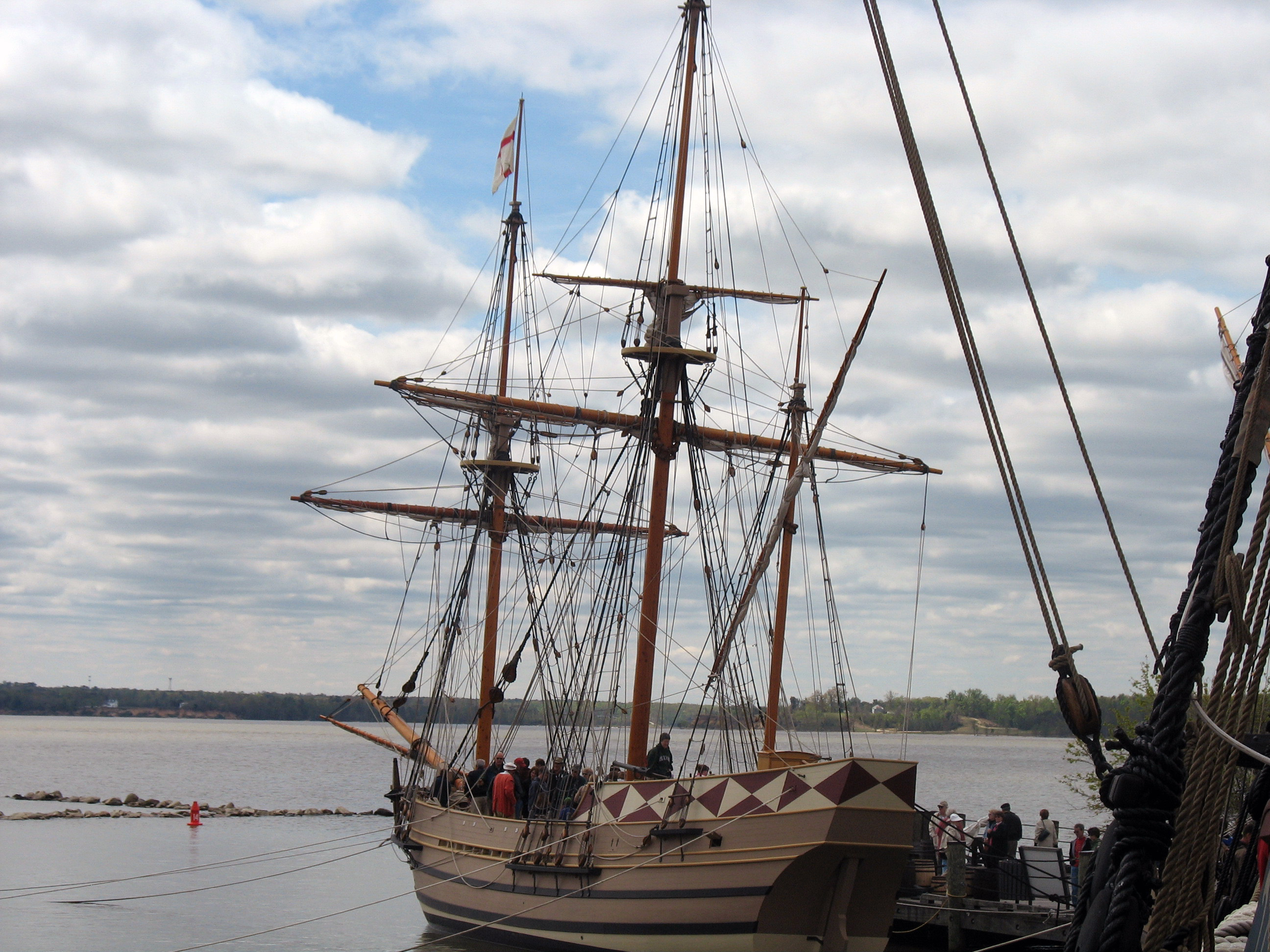 A picture of the Discovery, which is in port at Jamestown.